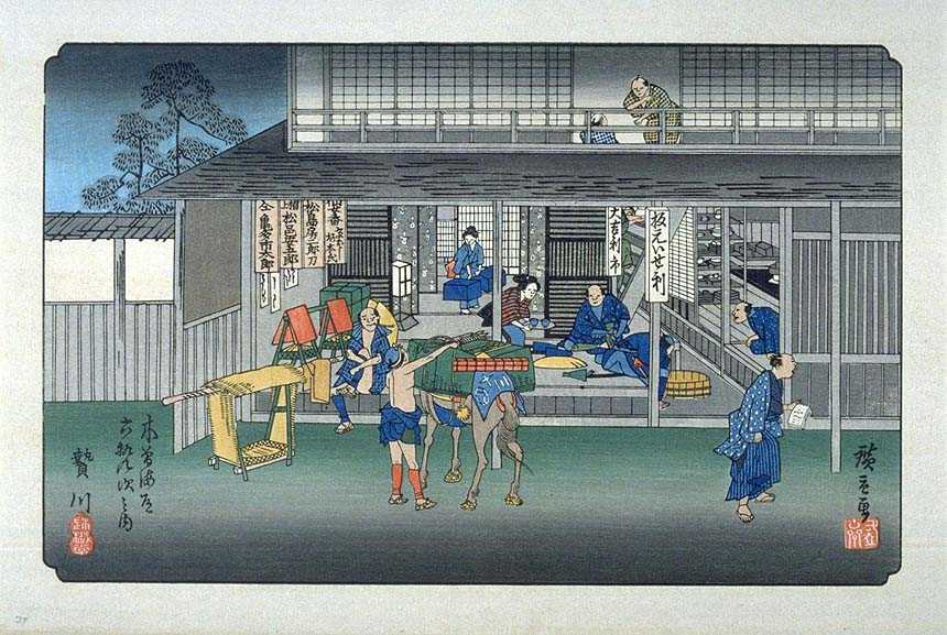 Niekawa on the Kisokaido, ukiyo-e prints by Hiroshige